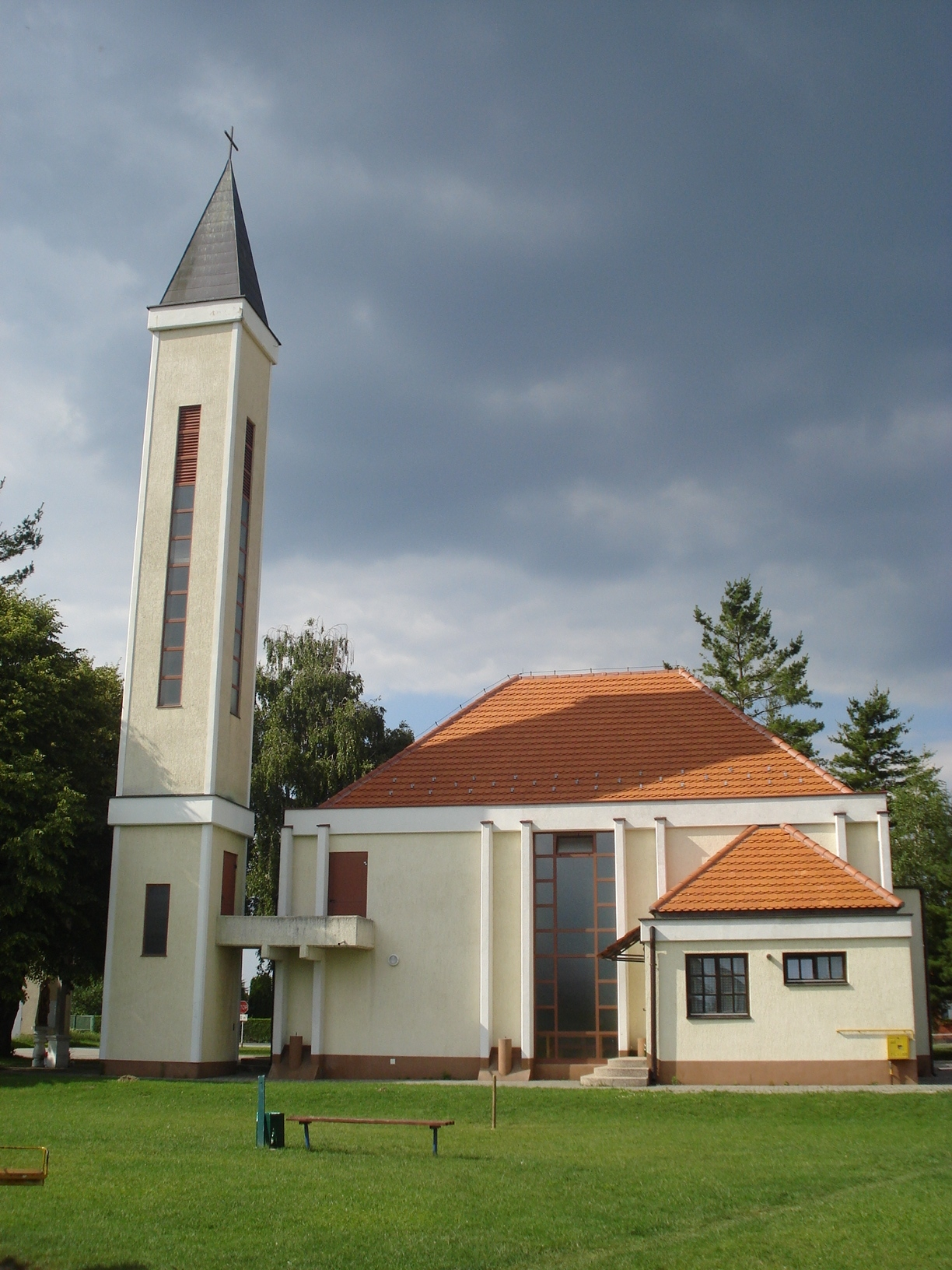 Church of the Assumption of the Blessed Virgin Mary in Gornji Kuršanec, Medjimurje County, CroatiaHrvatski: Crkva uznesenja blažene djevice Marije u Gornjem Kuršancu, Međimurska županija, Hrvatska